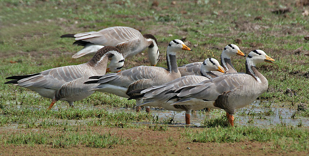 Bar-headed Goose (Anser indicus) at Keoladeo National Park, Bharatpur, Rajasthan, India.